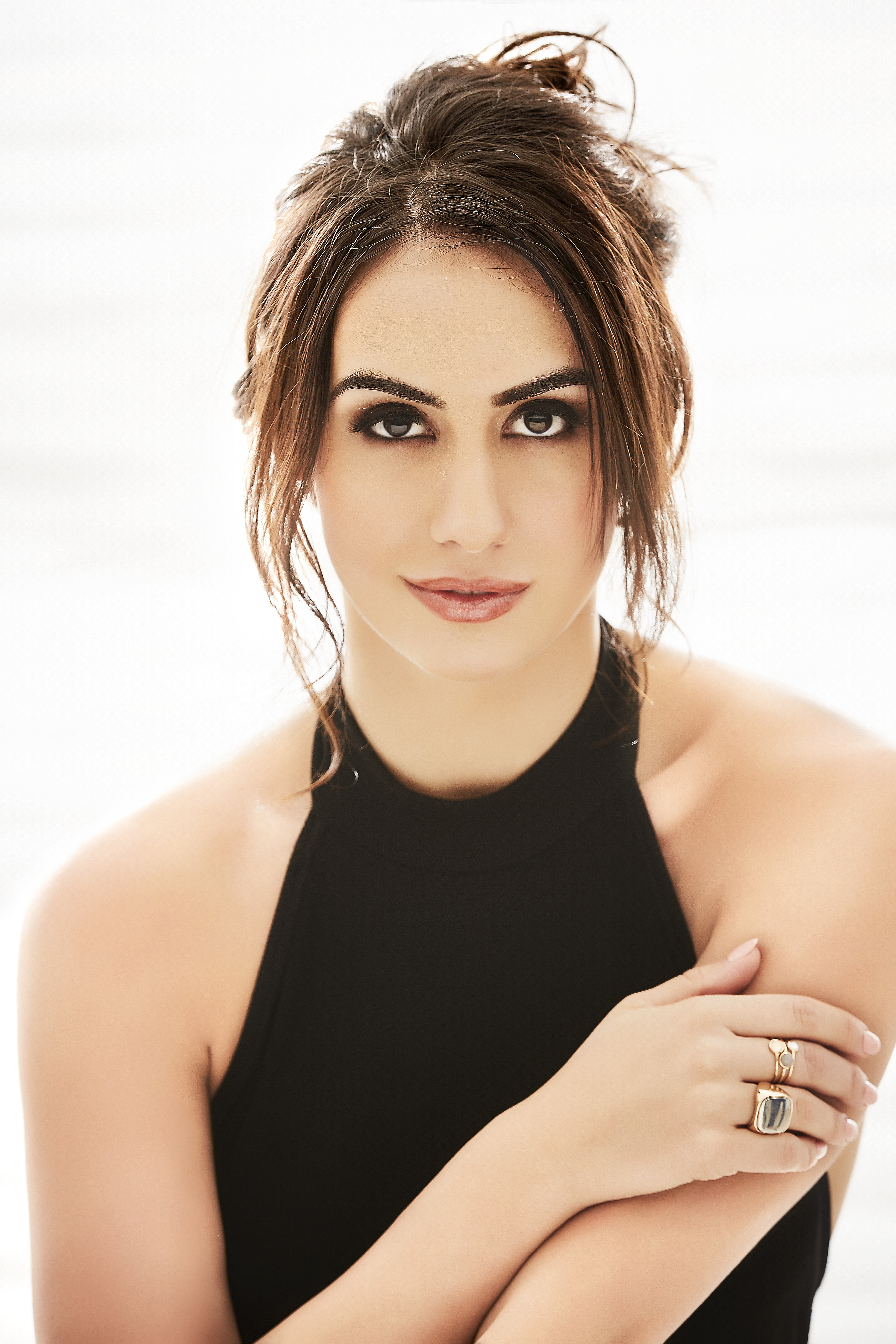 Lauren Gottlieb on one of her private photoshoots